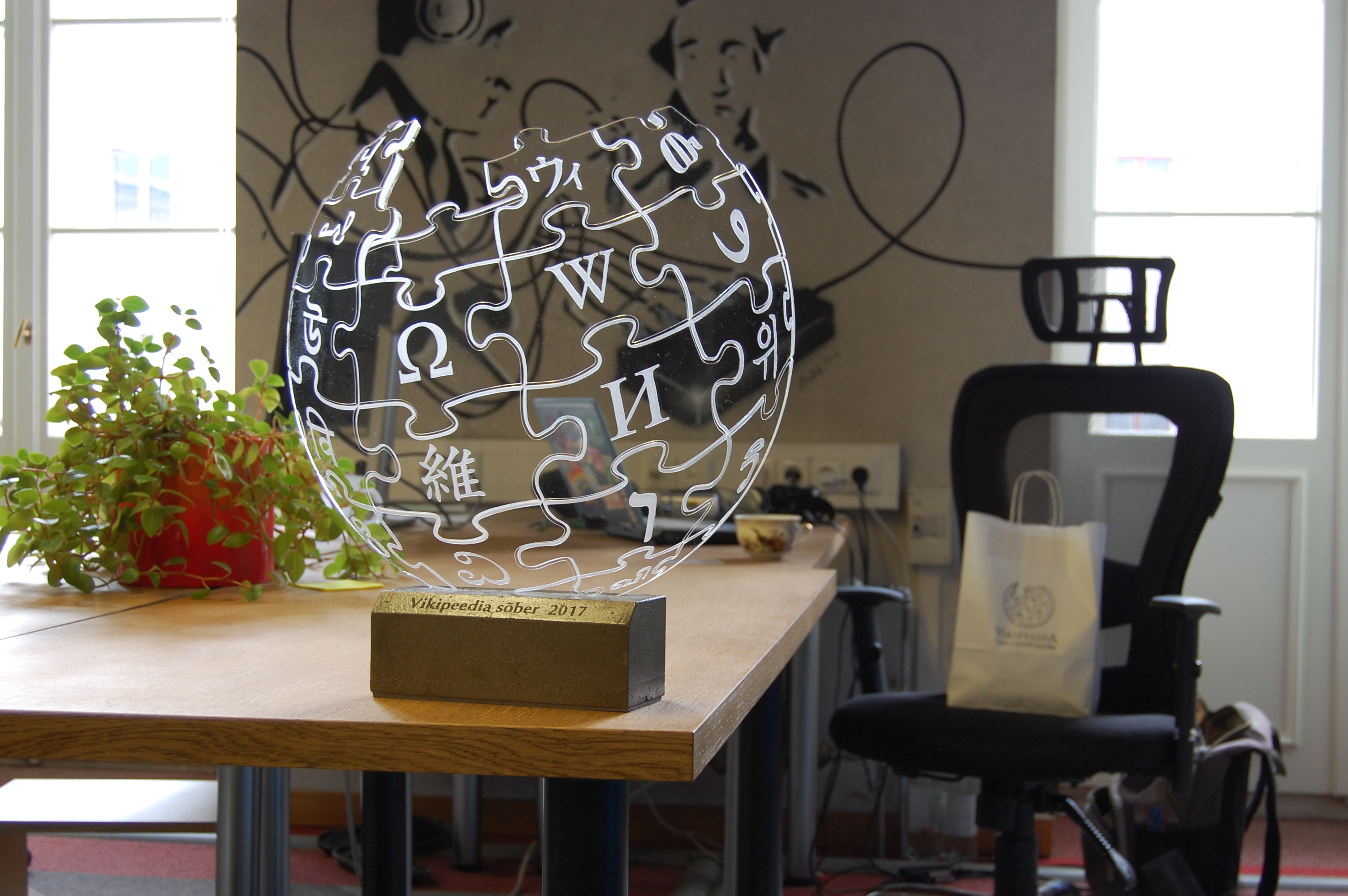 Friend of Vikipeedia 2017 award photographed in Wikimedia Estonia office 18.08.2017 Raekoja sq 16, Tartu